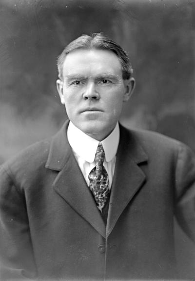 Representative C. C. Aspinwall, 1923